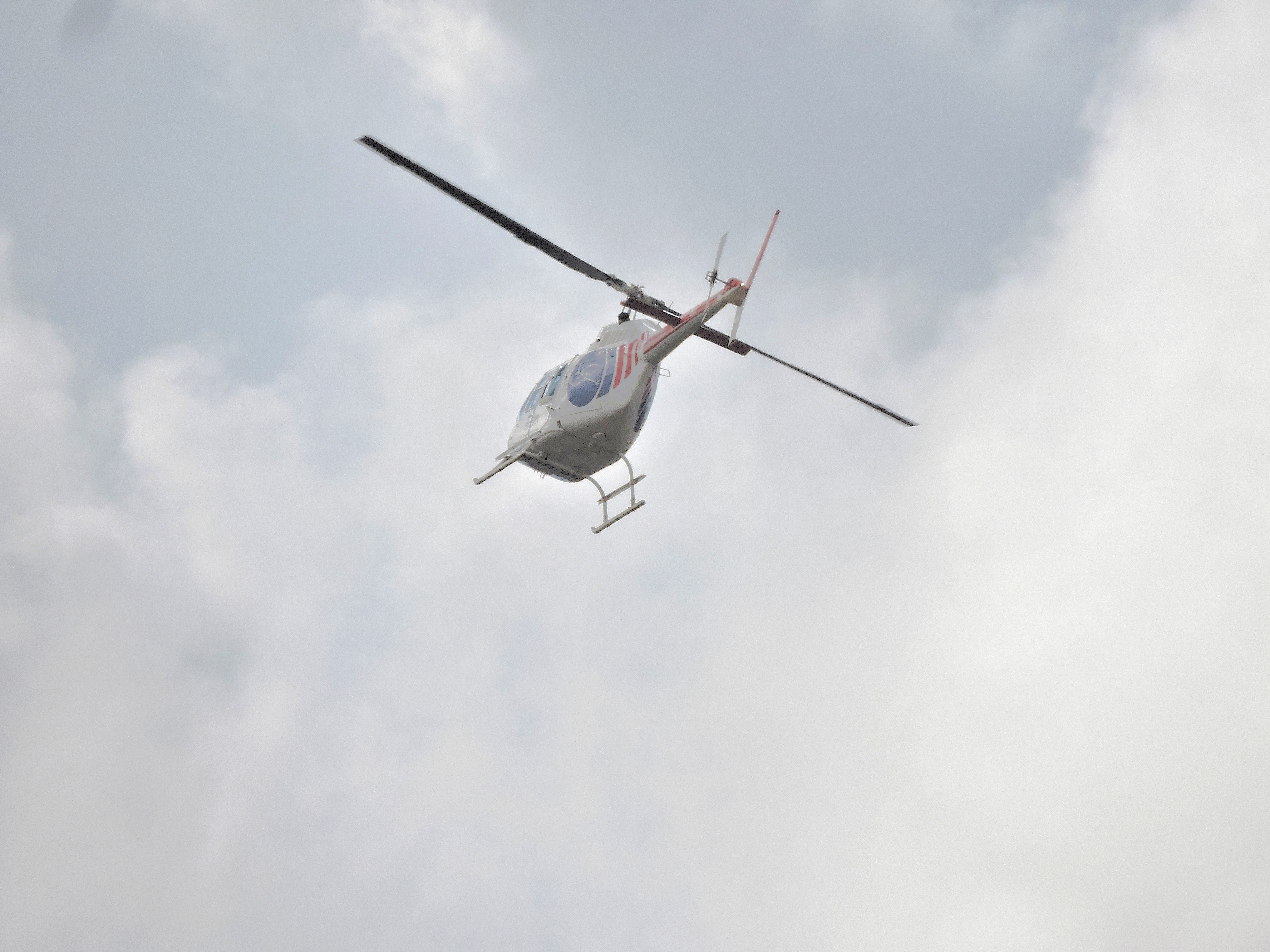 Bell 206B Jet Ranger of Millennium Airlines(4R-DLK) in a flight over Kotte, Sri Lanka.